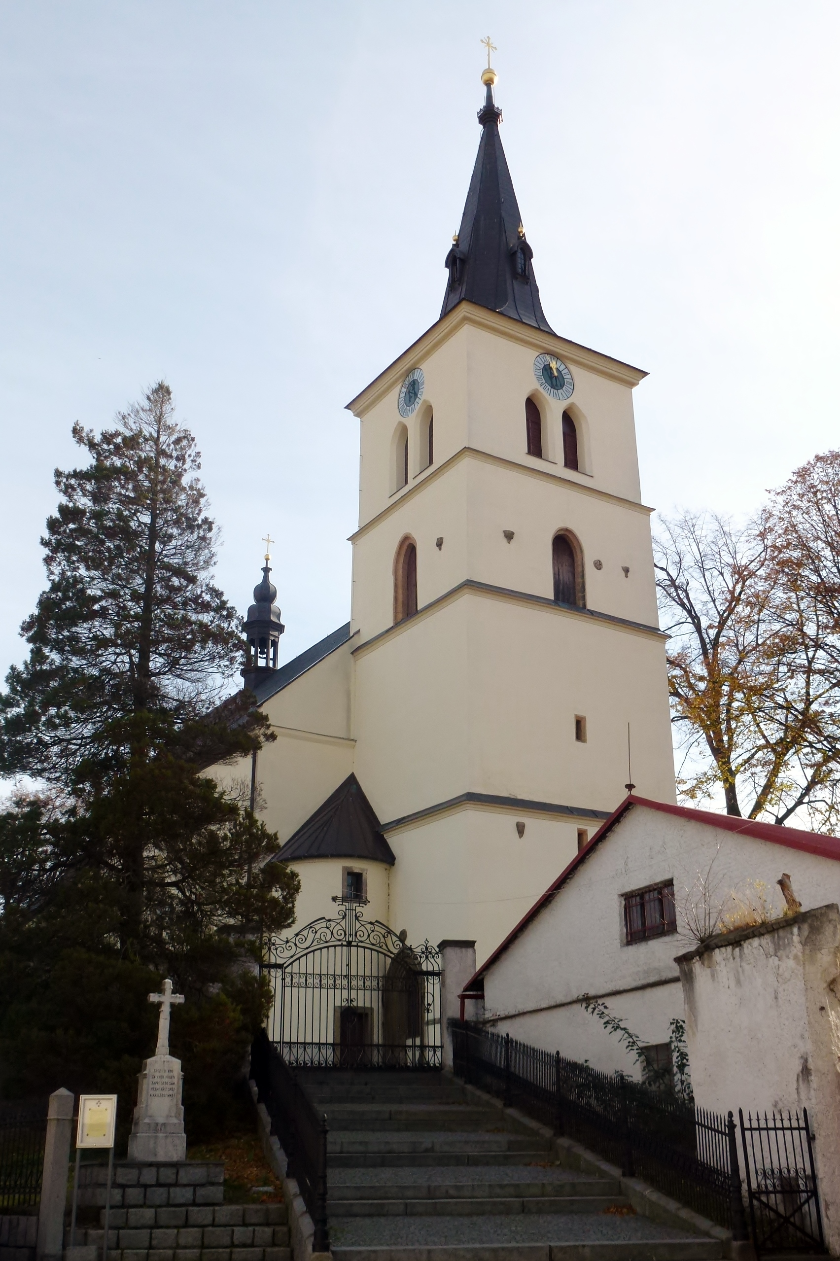 Church of the Assumption of Virgin Mary in Skuteč. Photo location - Czechia, Skuteč, Palacky Square.